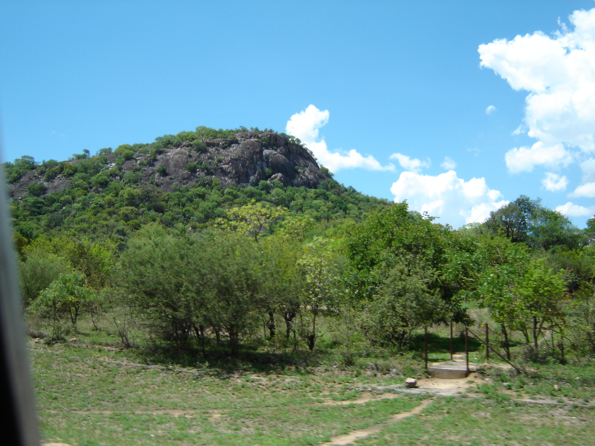 Granite kopje, Mbalabala area, Zimbabwe